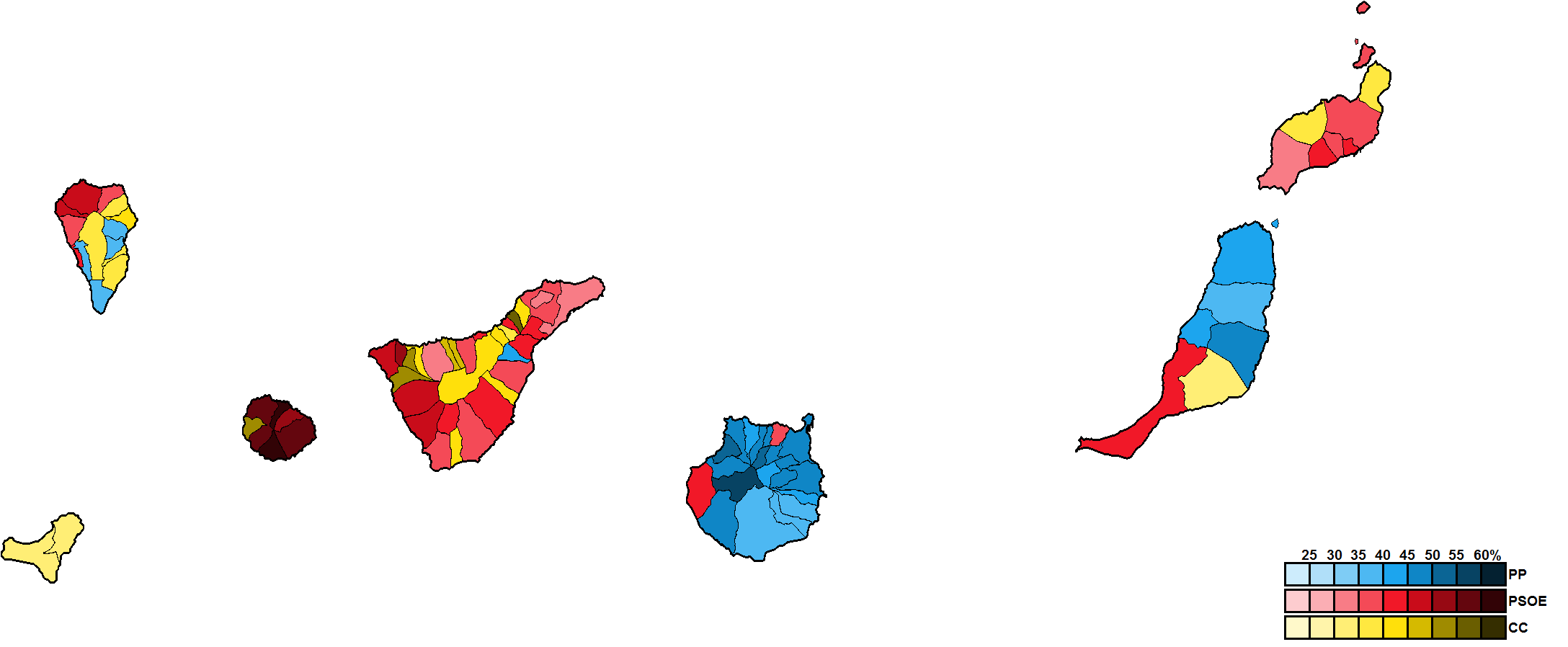 Most-voted party in Canary Islands municipalities, showing vote share obtained, in the Spanish general election, 2004.